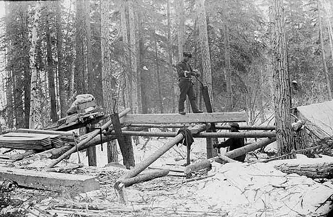 Men whipsawing lumber for boat building, Yukon Valley, ca. 1896